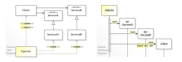 Dependency Injection UML class and sequence diagram